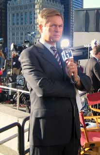 Photograph taken at World Financial Center